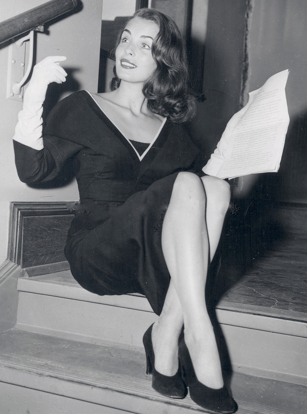 Rosemarie Bowe, actress, 1952 press photo